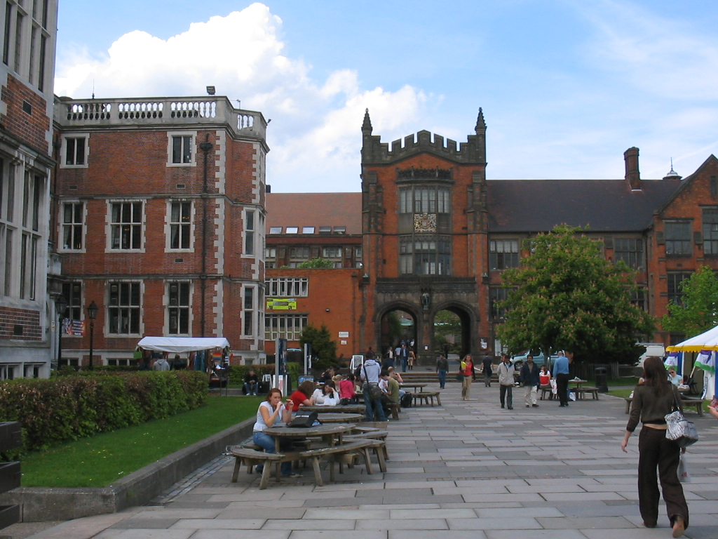 The King's Walk. Allowing access to the Union Society (left) and the arches of the Armstrong Building, leading to the Quadrangle.